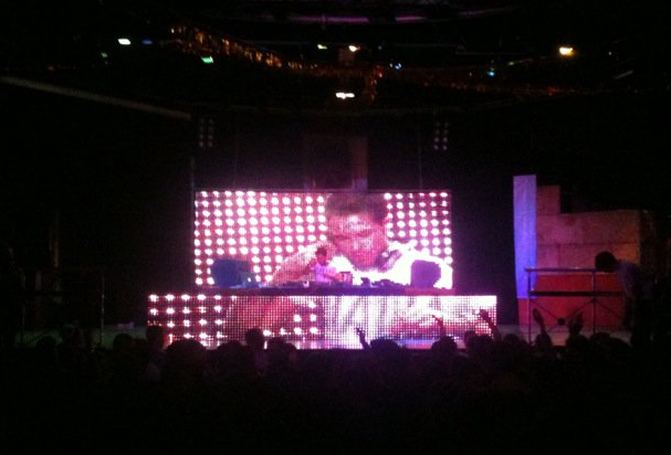 Comis live show during the ItaloDance Festival, 2013, Spain